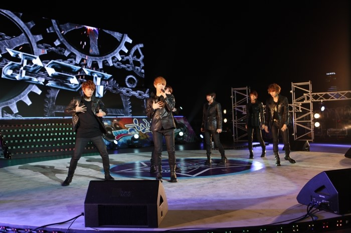 BEAST in June 9, 2012, during the Expo 2012 Yeosu.